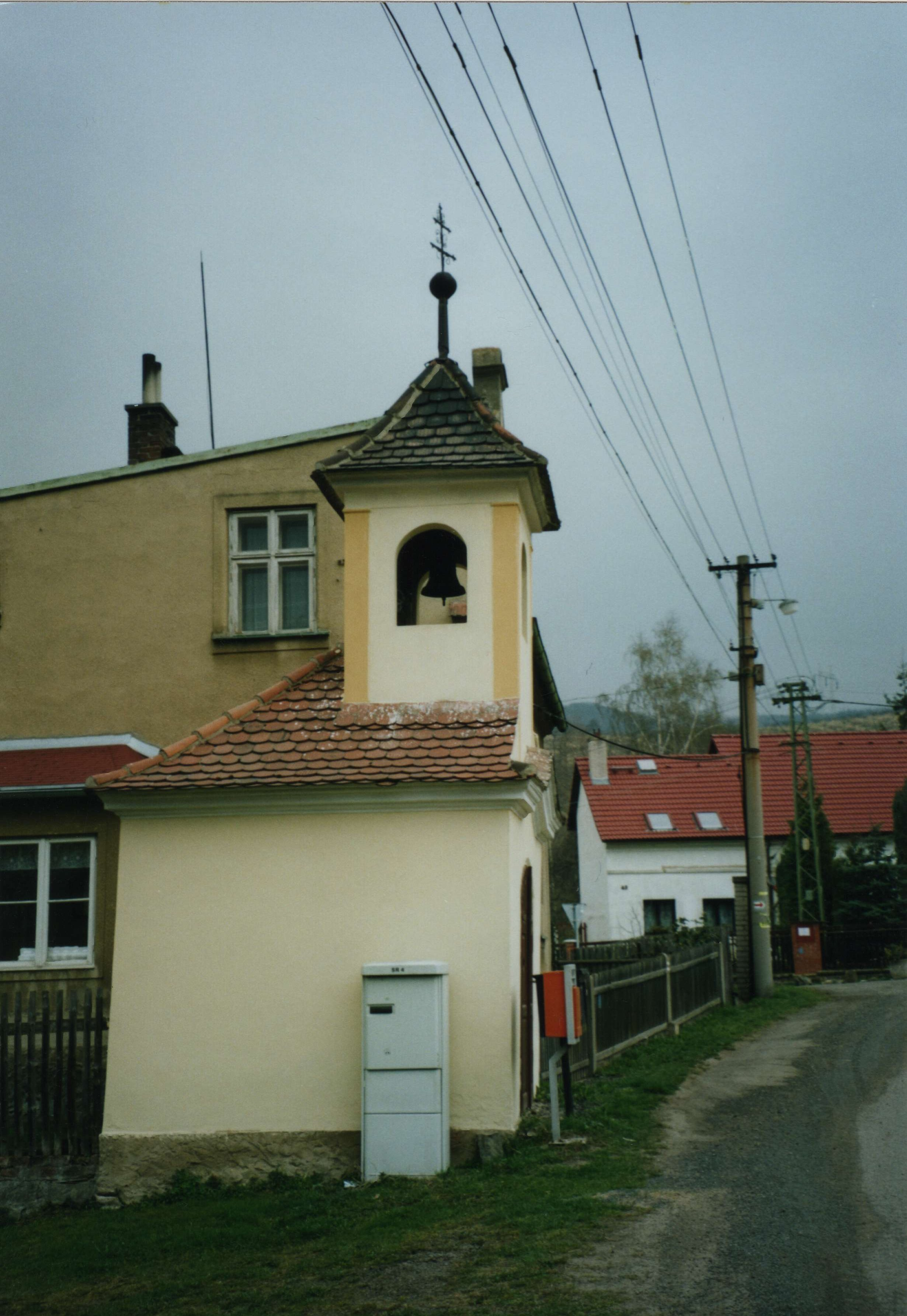 Chapel in Bukovice (Bžany), Teplice District, Ústí nad Labem Region, Czech Republic